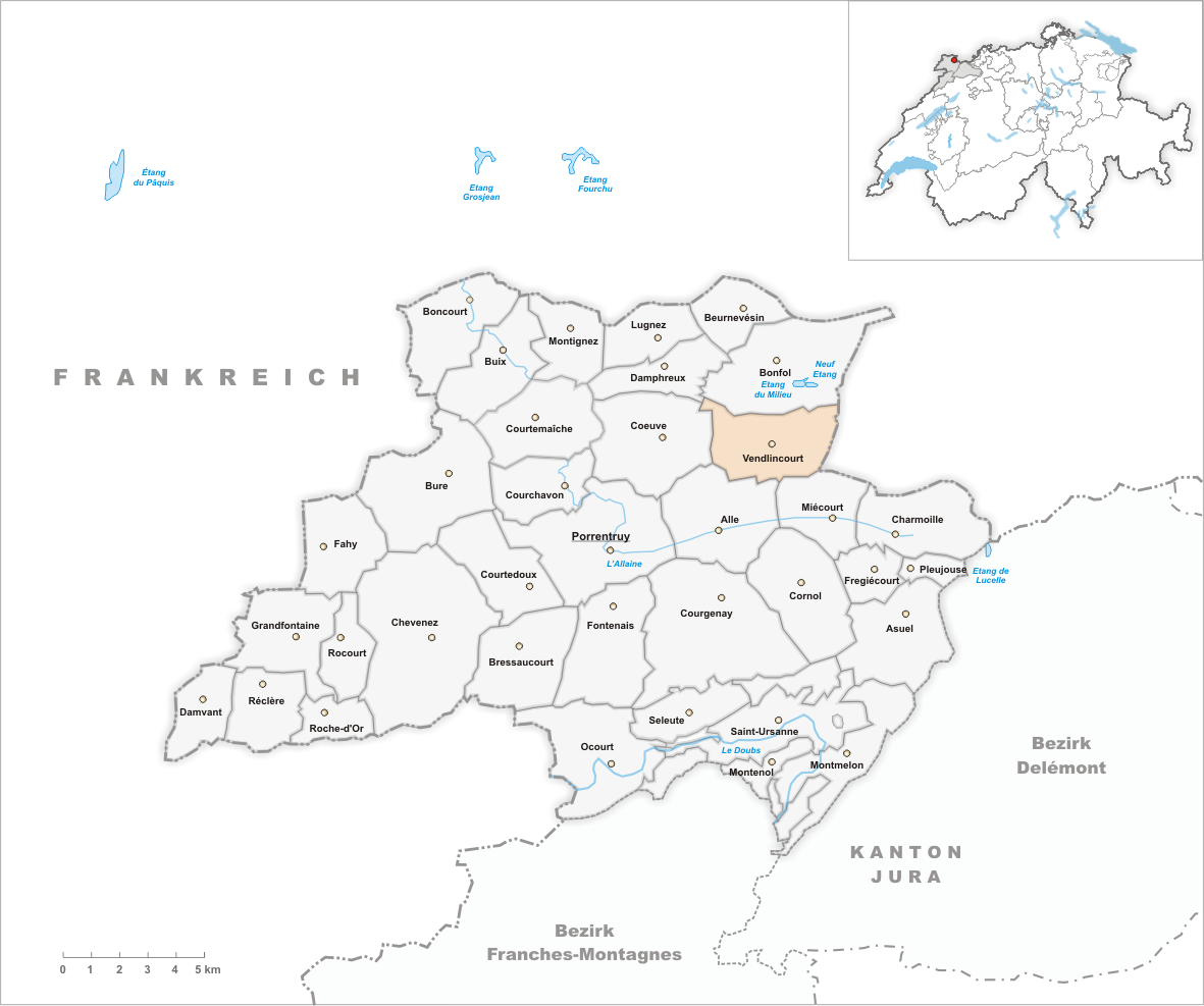 Municipality Vendlincourt